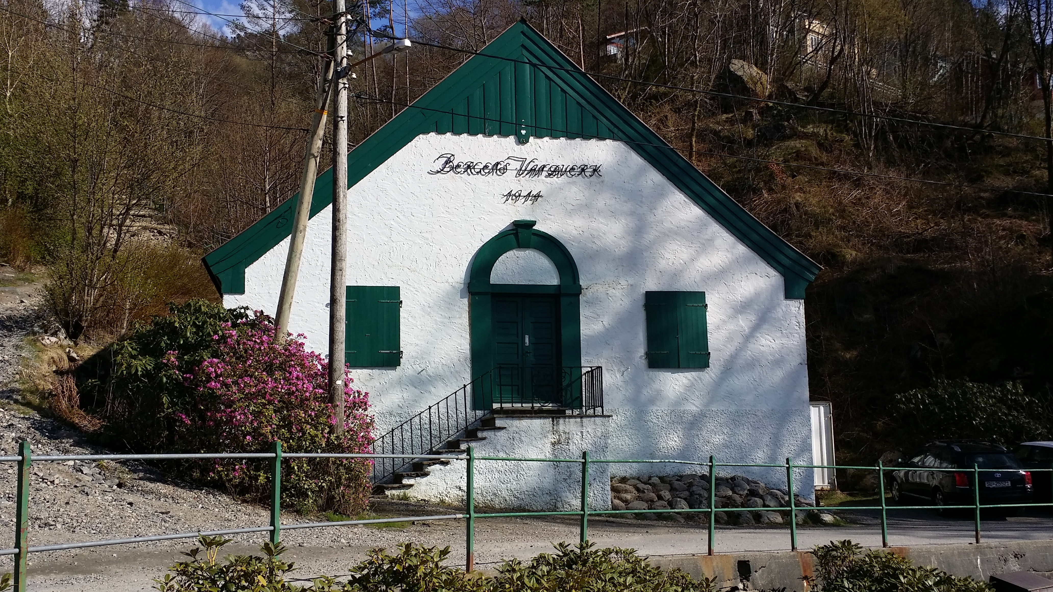 Old waterworks building in Mulen, Bergen, Norway